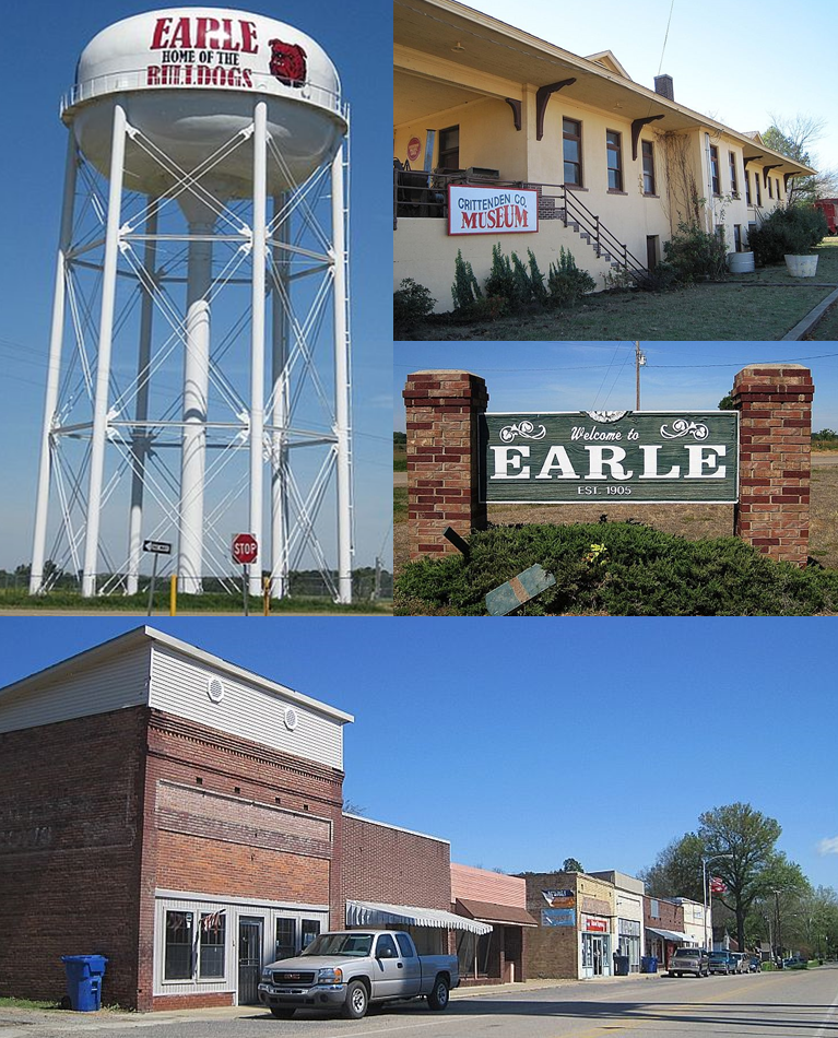 Collage of Earle, Arkansas.